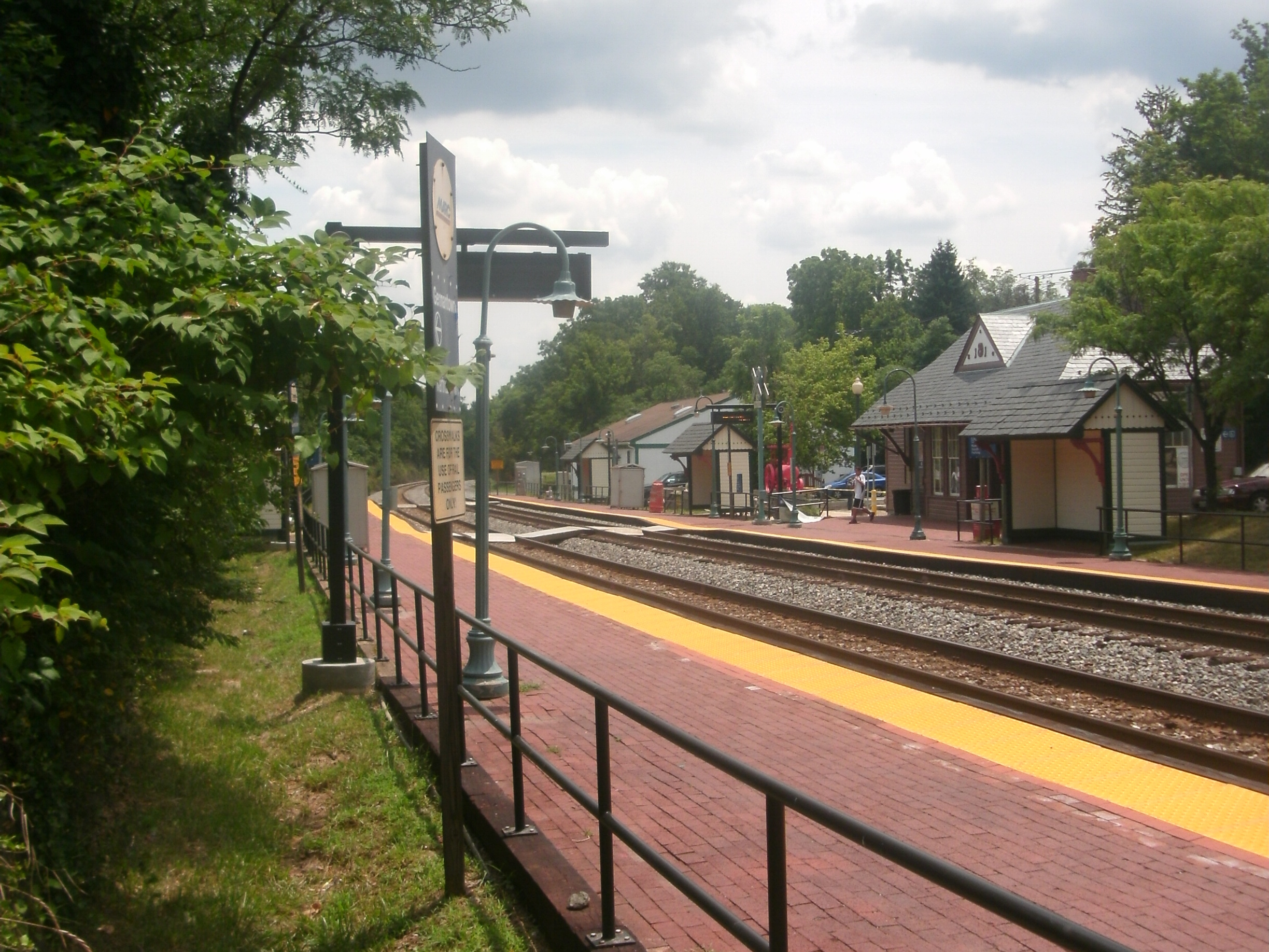 The Germantown station facing Washington-bound on the Martinsburg-bound platform.